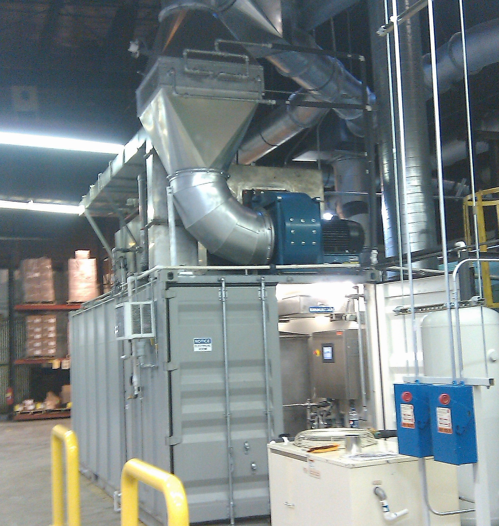 Benzene, MEK and Toluene Abatement and Control